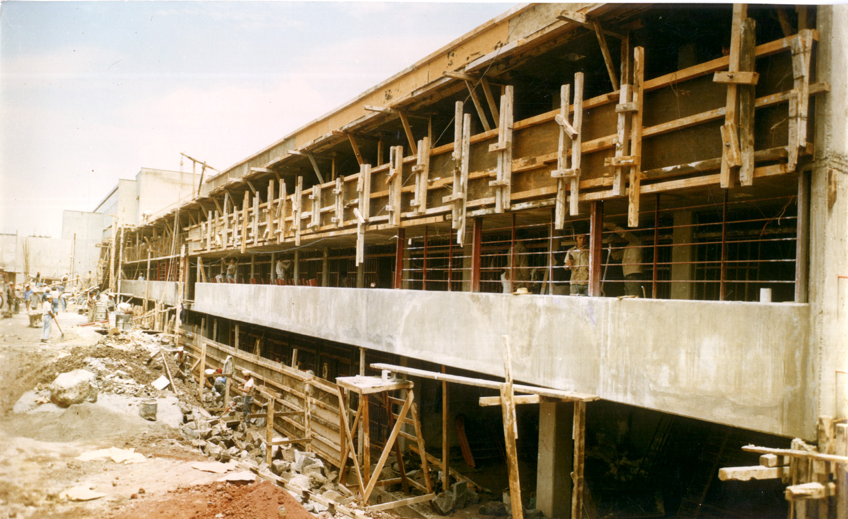 during construction